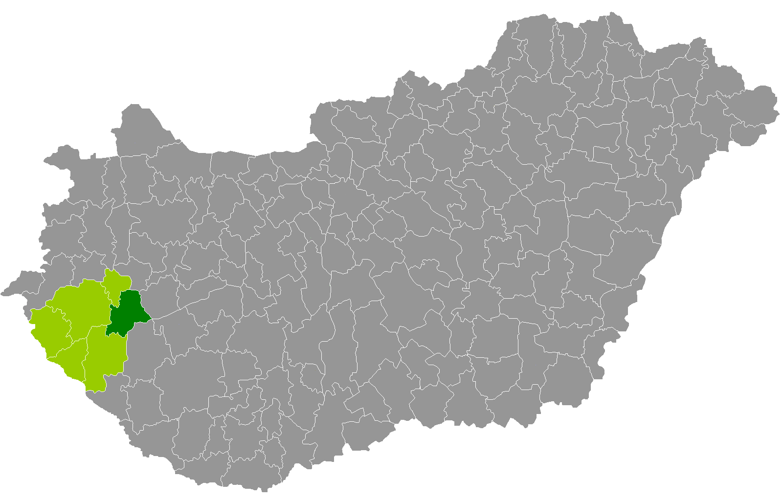 Location of Keszthely District, Zala, Hungary